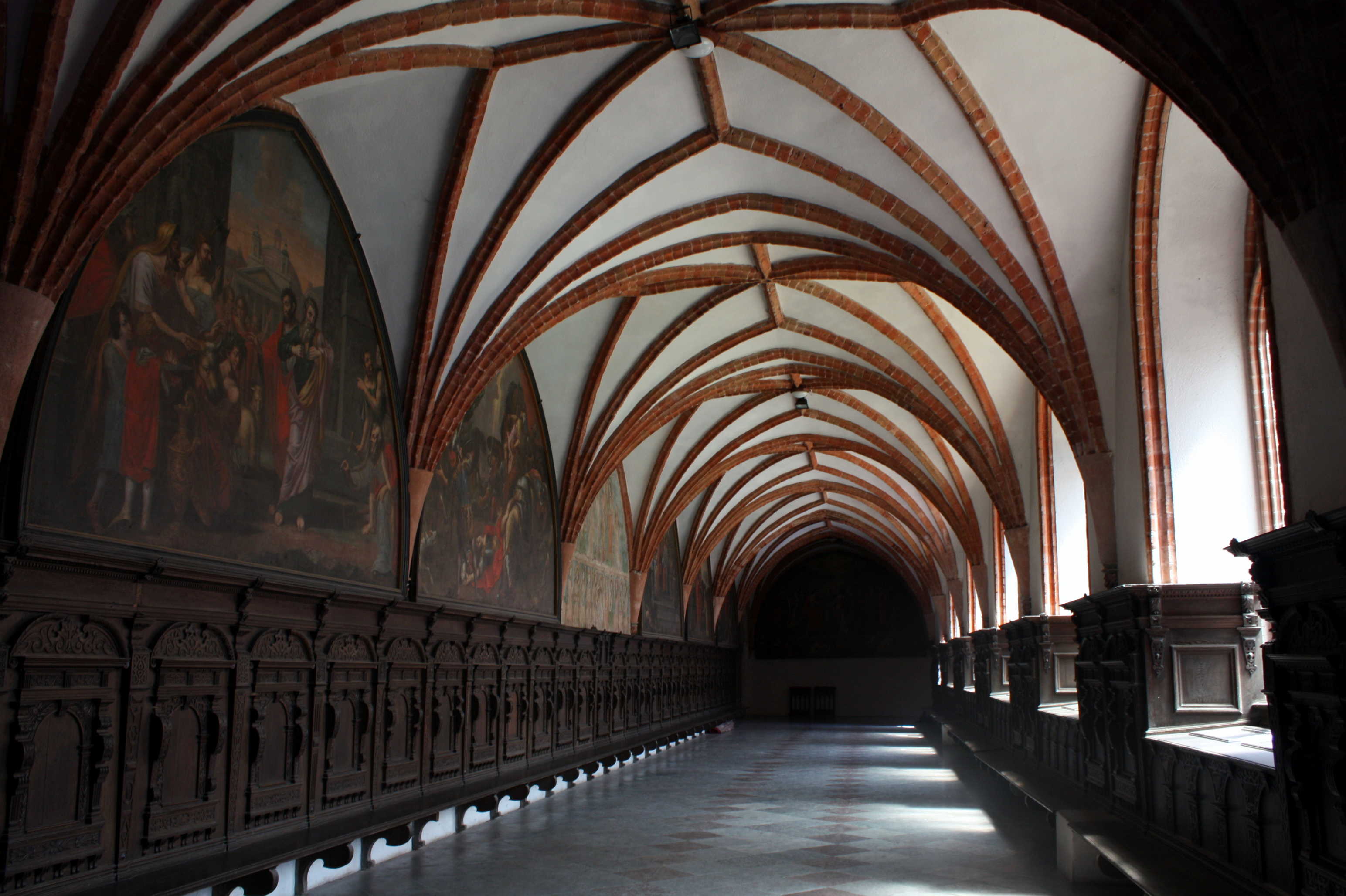 Former Cistercian Monastery in Pelplin